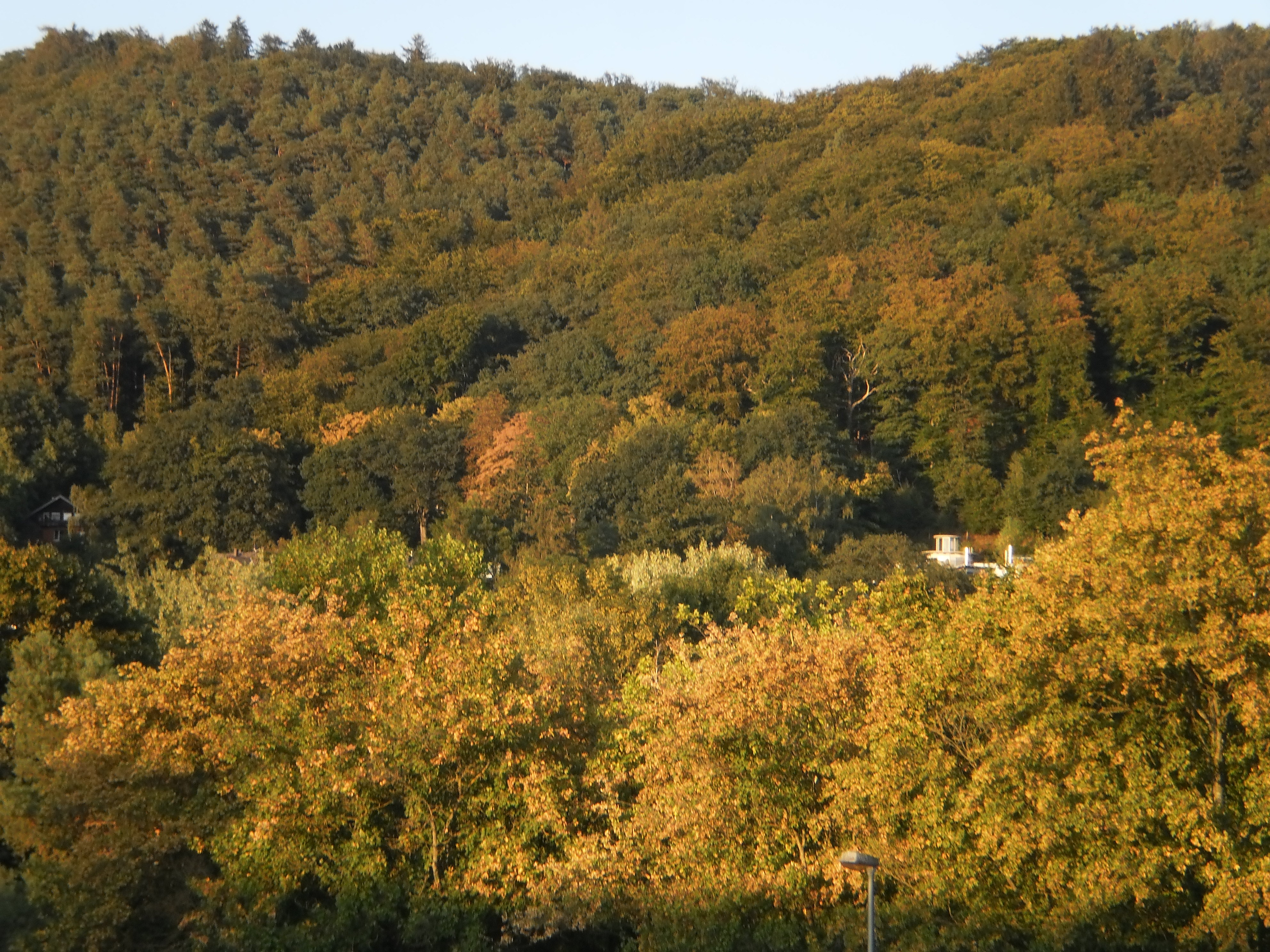 Early September 2018, dry trees in yellow and brown autumn colour, hills of 'Lahnberge' in Marburg (Germany) after Heatwave in Europe, (from Kurt-Schumacher-Brücke). Compare colour to photo File:Bäume an B3-Abfahrt Marburg bei Trockenheit im August 2018 mit Verfärbung des Sommerlaubs, alter UB-Silberwürfel, 2018-08-14.jpg (mid of August). One of the photos taken 2018-09-01 in Germany.